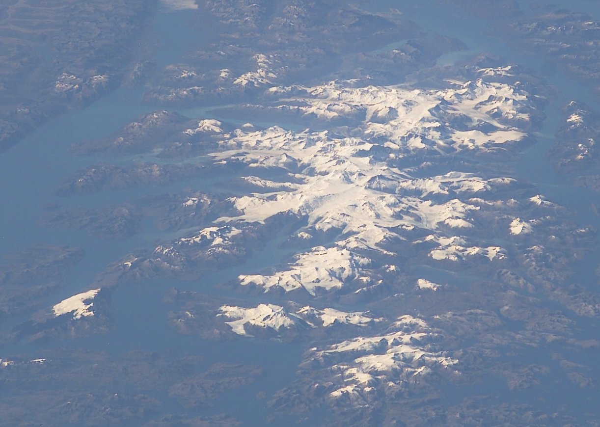 Cordillera Darwin, Chile. Cropped from original image.